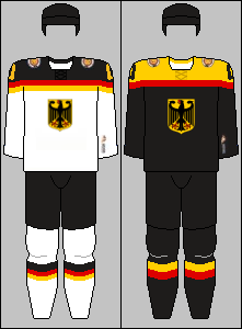 The home and away jerseys of the German national ice hockey team used from the 2014 IIHF World Championship.